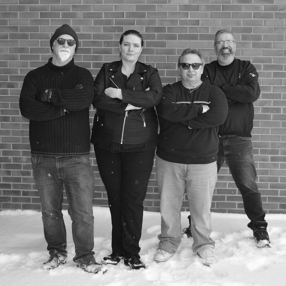 Fiùran (Sapling) is a female fronted Canadian Celtic metal/hard rock band based in Ottawa, Canada that writes, records and performs original and traditional songs in Scottish Gàidhlig and English using electric and traditional instruments (bagpipes, Irish whistles, fiddle, accordion) fused into rock arrangements.